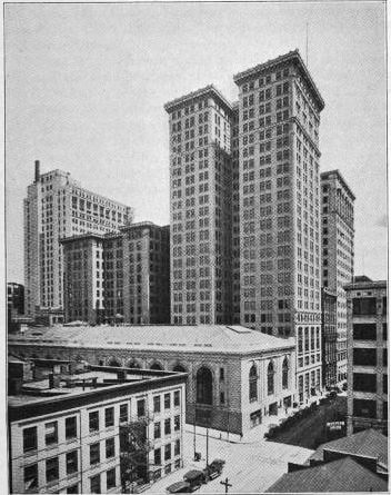 Detroit Financial District, c. 1922 with the Penobscot Building Annex. Penobscot Block contributing properties to the Detroit Financial Historic District, and on the National Register of Historic Places.